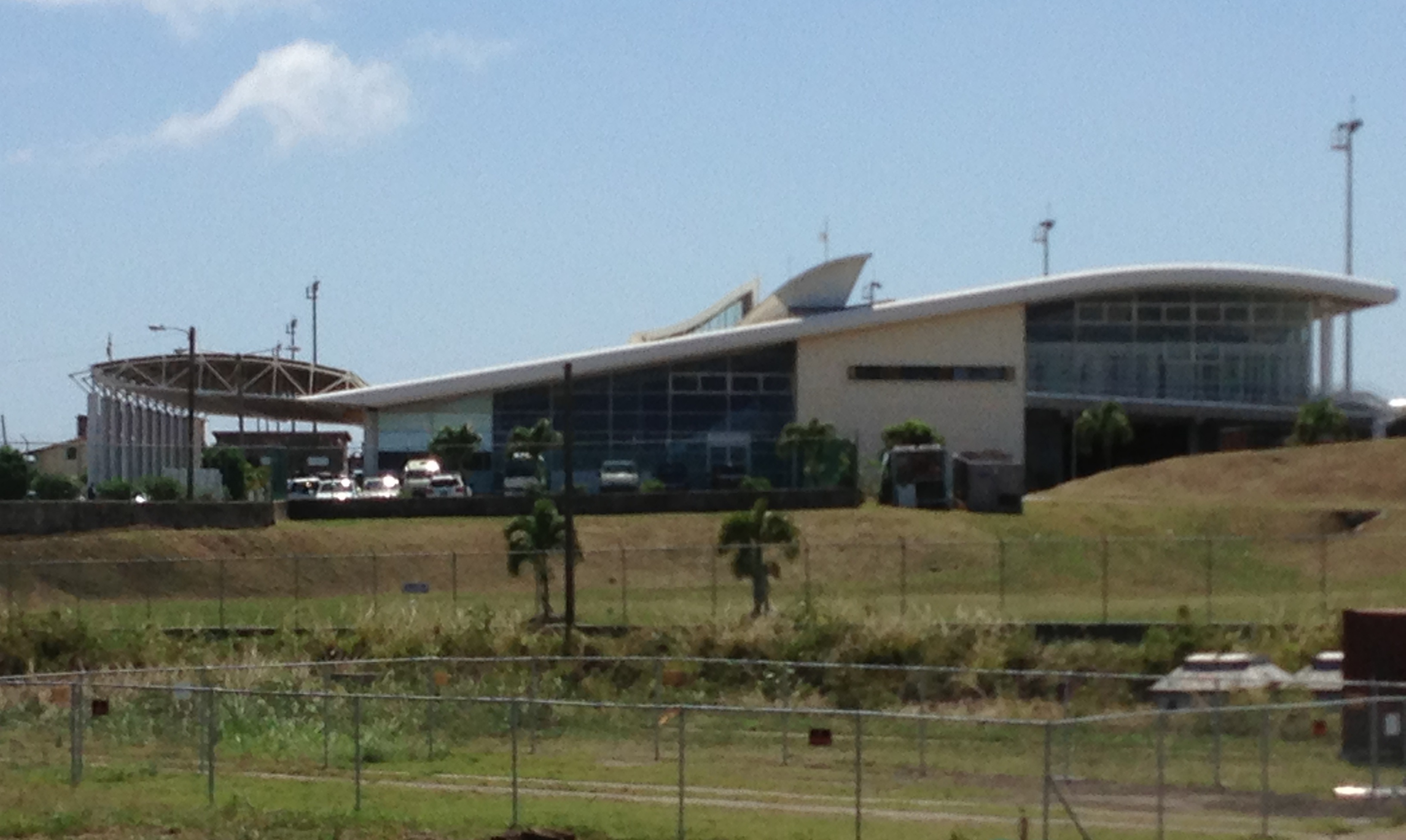 View of the east side of passenger terminal at Robert L. Bradshaw International Airport, Saint Kitts